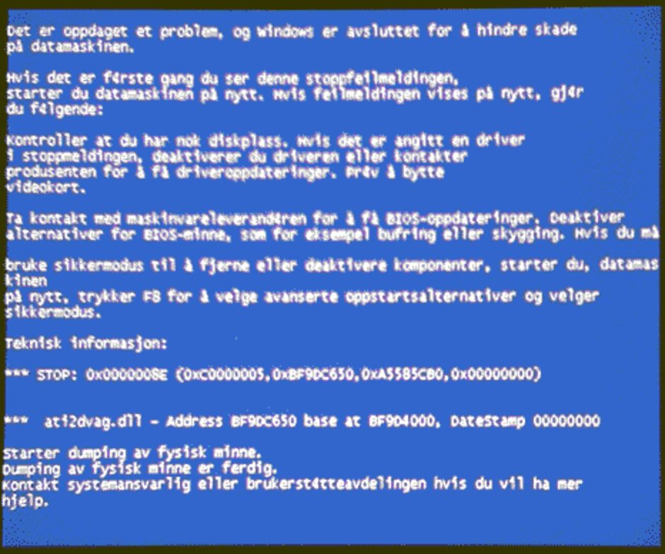 A bluescreen of death in norwegian Windows XP